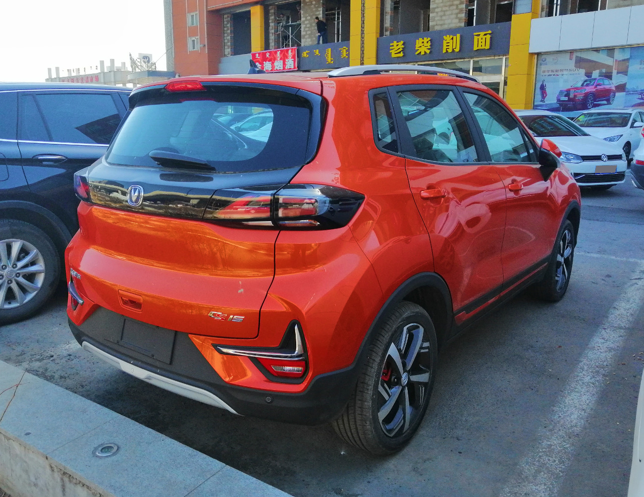 Chang'an CS15 facelift photographed in Hohhot, Inner Mongolia autonomous region, China.